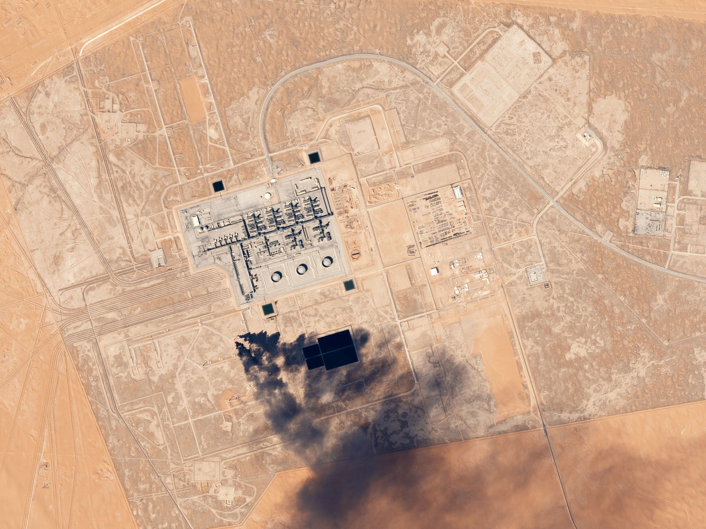 Khurais Oil Processing Facility Saudi Arabia February 4, 2017 The Khurais Oil Field added 1.2 million barrels of oil per day to Saudi Arabia’s production capacity when it came on-line in 2009. The field’s Central Production Facility, located northwest of Riyadh, separates wet crude oil into stabilized crude, sour gas, and natural gas liquids. Despite low oil prices, Saudi Aramco announced they would move ahead with expansion plans in 2016. Construction progress—including the footprints of a new storage tank & gas oil separation plant—is evident in this satellite imagery series captured July 2016 through early 2017. Occasional dark smoke from flaring is part of the normal operation of the facility.